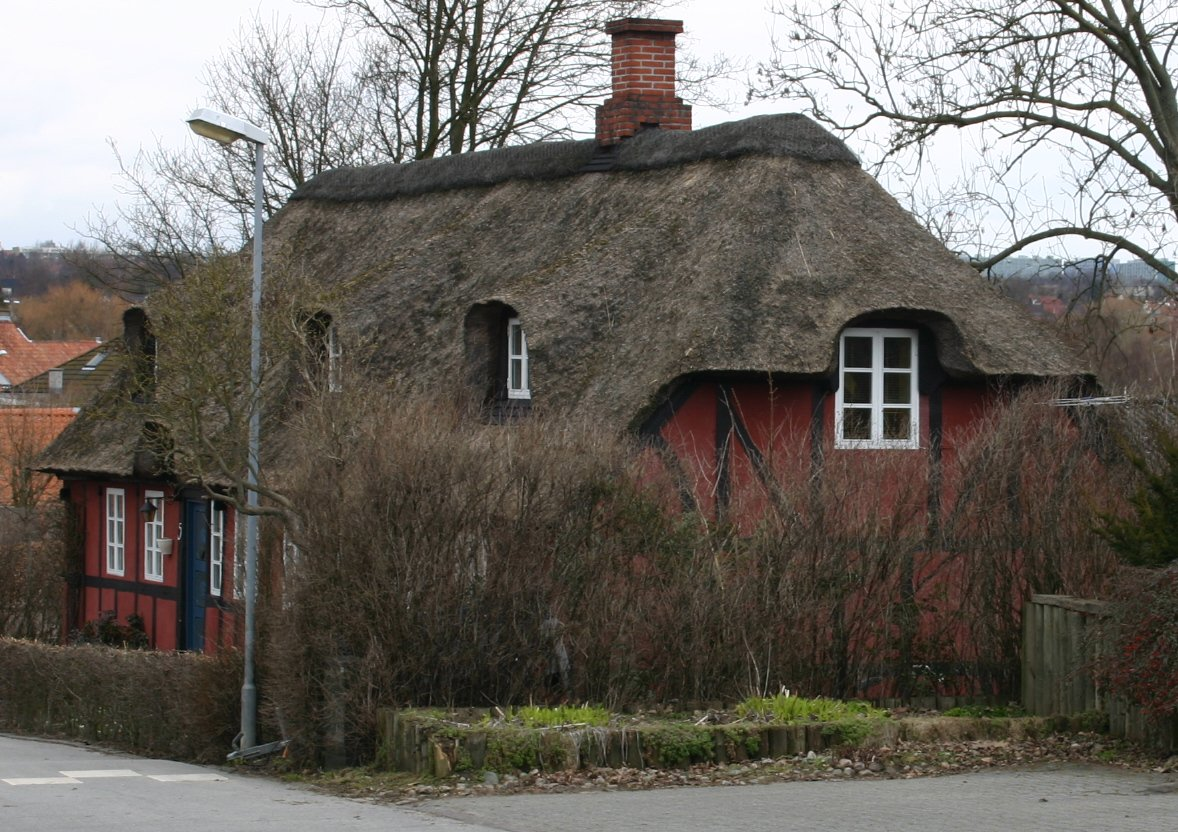 Description: View of a street at Aaby, a suburb of Aarhus, Denmark. Source: Own photo, taken in Jutland, Apr 2006. Author: Sten Porse